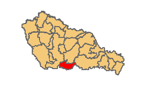 Location of municipality inside Međimurje County